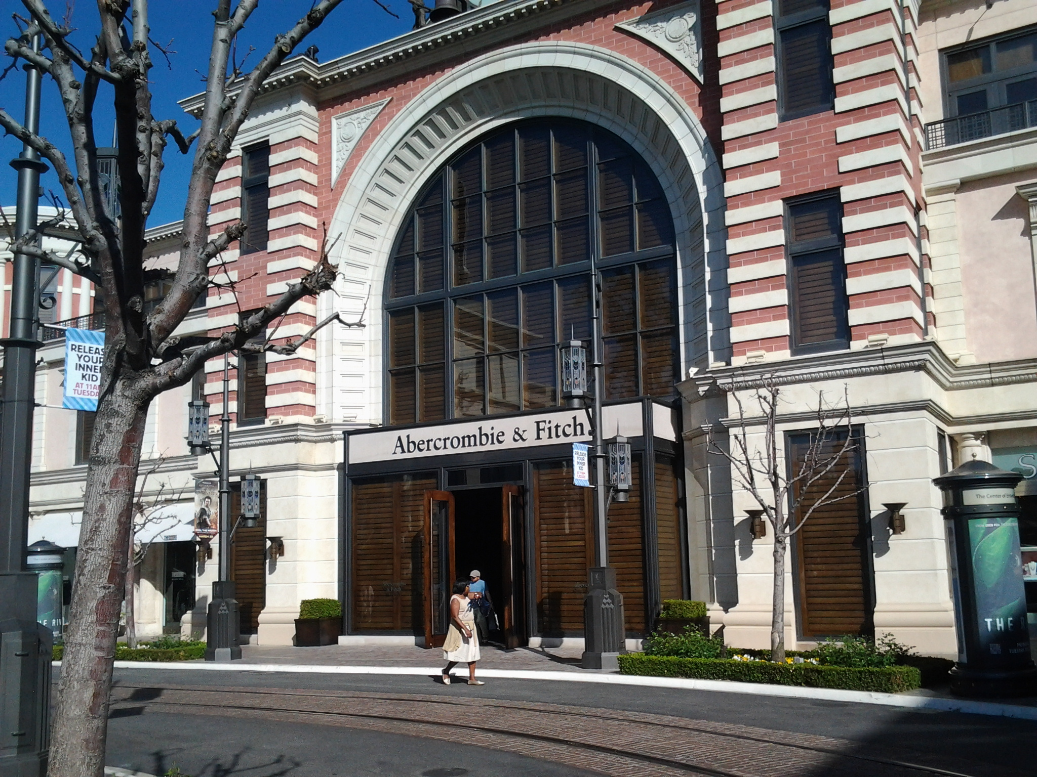 Abercrombie & Fitch store located at The Grove at Farmers Market, Fairfax District, Los Angeles, California.